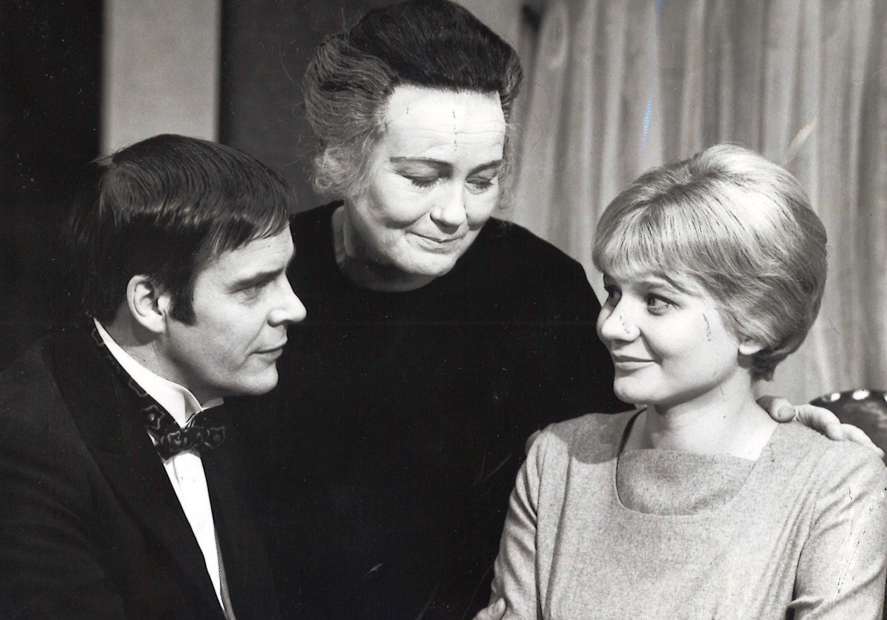 Photograph of the main cast — Tommi Rinne, Emma Väänänen, Ritva oksanen — of a Finnish production of August Strindberg’s Easter. Directed by Mauno Manninen at Intimiteatteri, Helsinki.